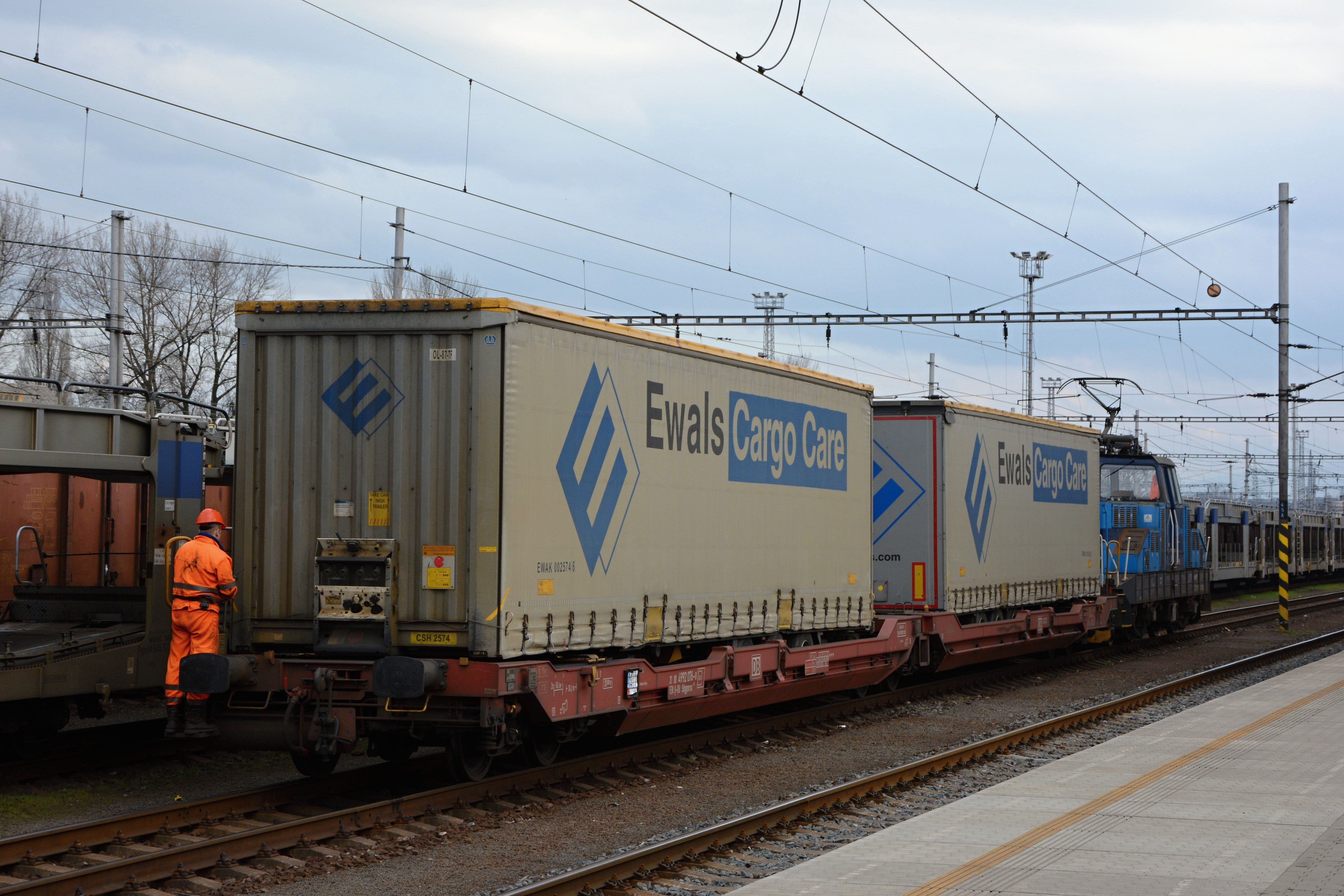 Sdggmrss wagon No. 31 80 4992 076-8 with two Ewals Cargo Care trailers; Ostrava-Kunčice station, the Czech Republic